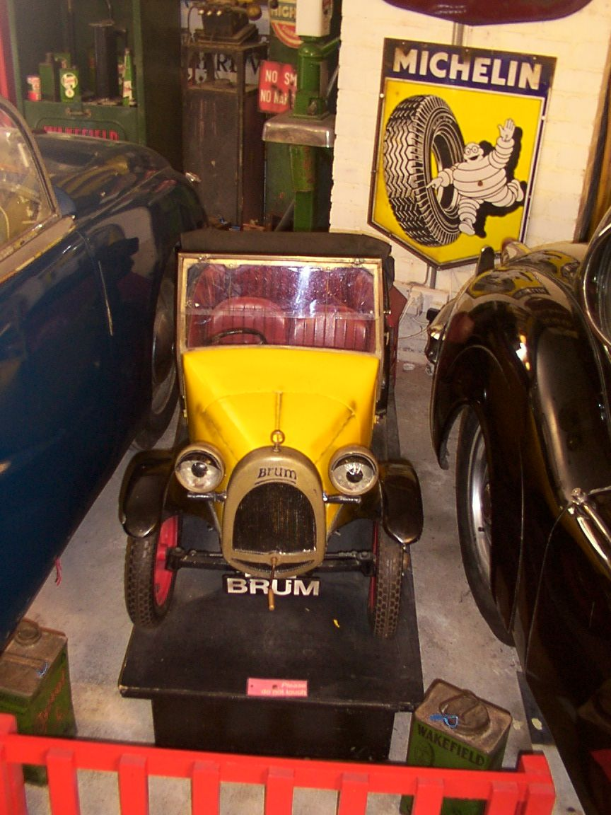 Brum from the British childrens television programme Brum on display at the Cotswold Motoring Museum